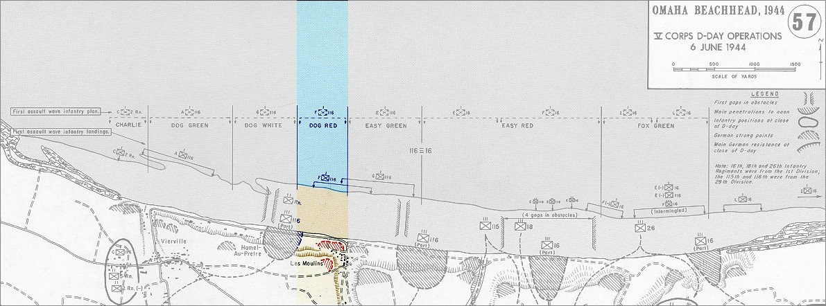 This is a treatment of the image Omaha_beachhead_6_June_1944.jpg already placed in Wikimedia Commons and used in the article Omaha Beach. I believe the source image is already GFDL licensed, and I generated this copy myself.